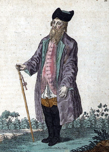 Russians, Kaluga merchant.